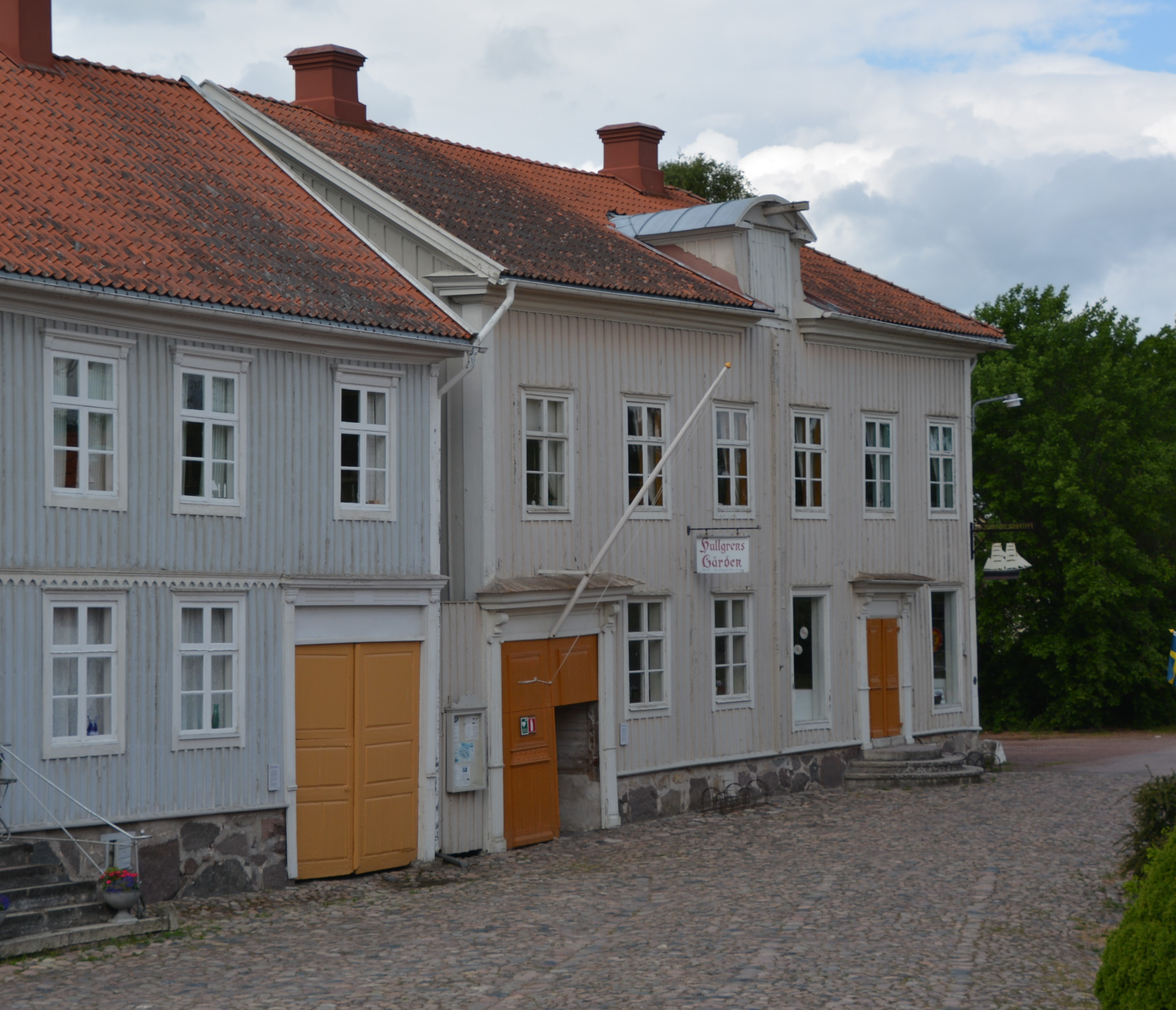 Hullgrenska gården i Pataholm